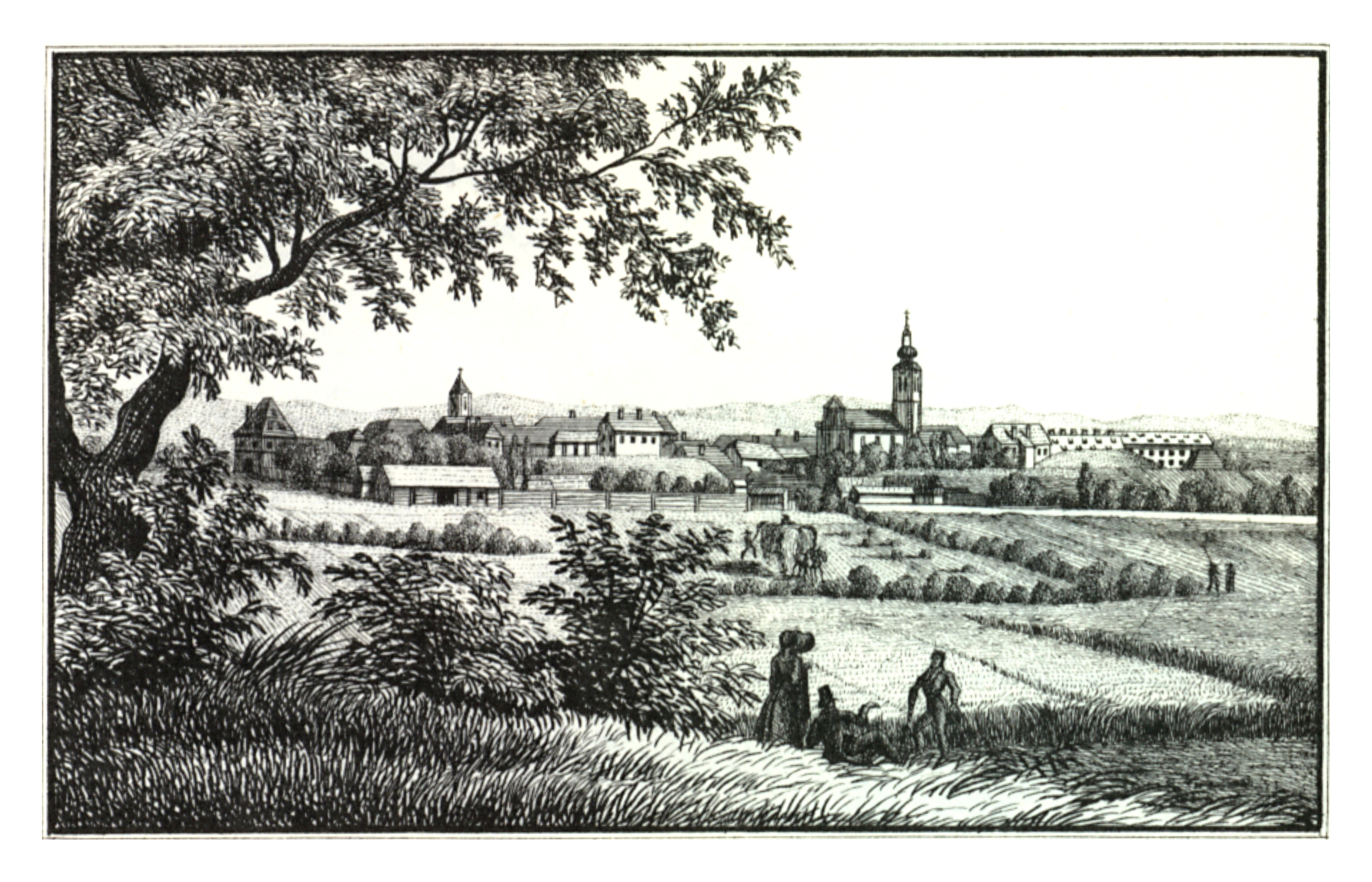 J. F. Kaiser - lithographirte Ansichten der Steyermärkischen Städte, Märkte und Schlösser Graz, 1825 Joseph Franz Kaiser (1786–1859) Alternative names J. F. KaiserDescriptionAustrian printer and editorDate of birth/death 11 March 1786 19 September 1859Location of birth/death Graz (Styria) GrazAuthority control : Q1499963 VIAF: 30629353 ISNI: 0000 0000 3083 0153 LCCN: n87141671 GND: 129880159 NLP: A24960305 WorldCat creator QS:P170,Q1499963 Scanprojekt Community Projektbudget 2012 This scan or this PDF-file was created within the GLAM-project Bookscanning, supported by Wikimedia Germany and Wikimedia Austria as a part of the community-project to capture books, documents and pictures which are not eligible to copyright or for which the copyright has expired. This document describes or depicts an object which is located in Austria today. Send requests for uncompressed scans to Hubertl. This work is in the public domain in its country of origin and other countries and areas where the copyright term is the author's life plus 100 years or less. You must also include a United States public domain tag to indicate why this work is in the public domain in the United States. This file has been identified as being free of known restrictions under copyright law, including all related and neighboring rights.